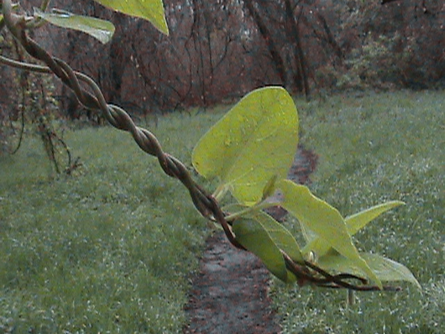 Example of California pipevine (Aristolochia californica) growing over a trail in Bidwell park. The vine here wrapped around itself in a spiral shape.